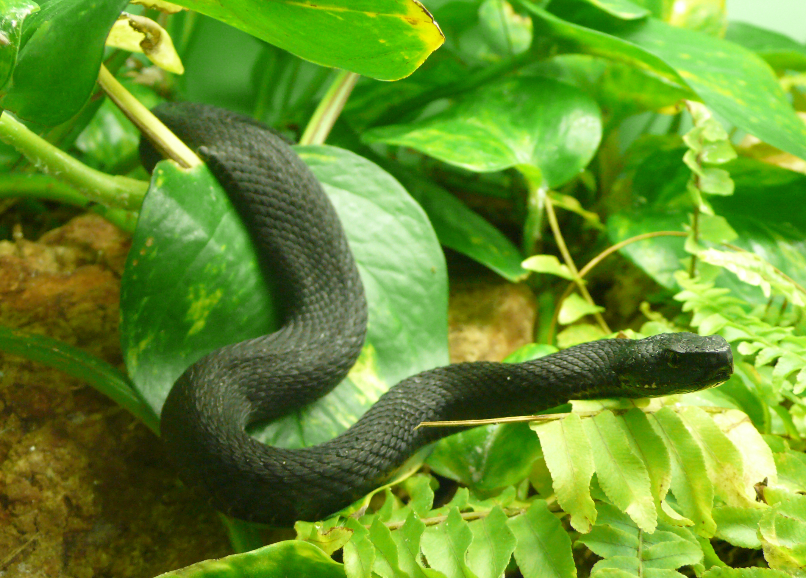 Caucasus viper (Vipera kaznakovi)